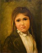 Painting